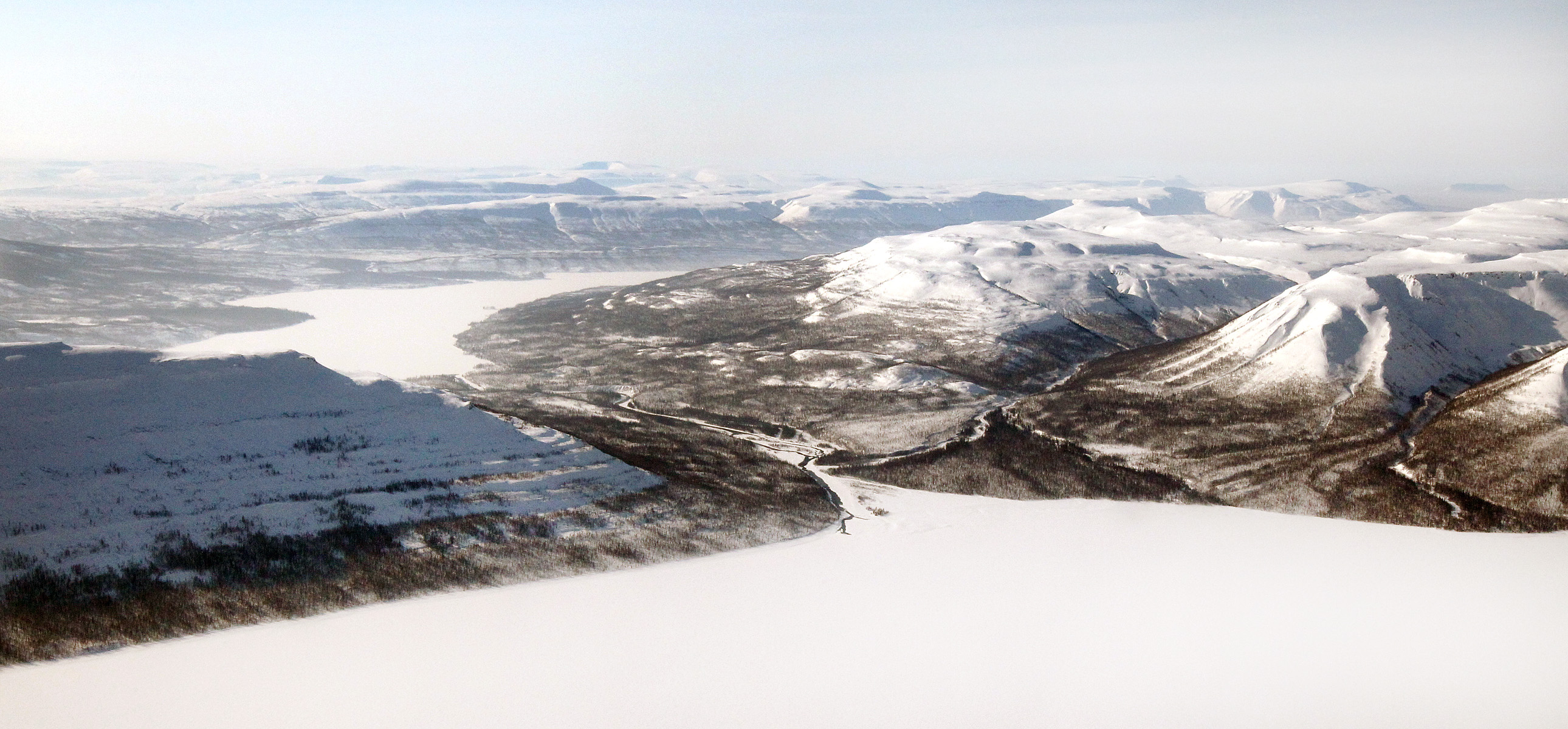 Plato Putorana